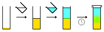 X-ray_crystals_-_slow_liquid_diffusion: Solvent added (clear) to compound (orange) to give compound solution (orange) Second solvent added (blue) carefully so that the two solvents do not mix. The two solvents mix (diffuse) slowly overtime to give crystals (orange) at solvent interface (green) i.e. → Solvent added (clear) to compound (orange) to give compound solution (orange) → Second solvent added (blue) carefully so that the two solvents do not mix. → The two solvents mix (diffuse) slowly over time to give crystals (orange) at solvent interface (green)